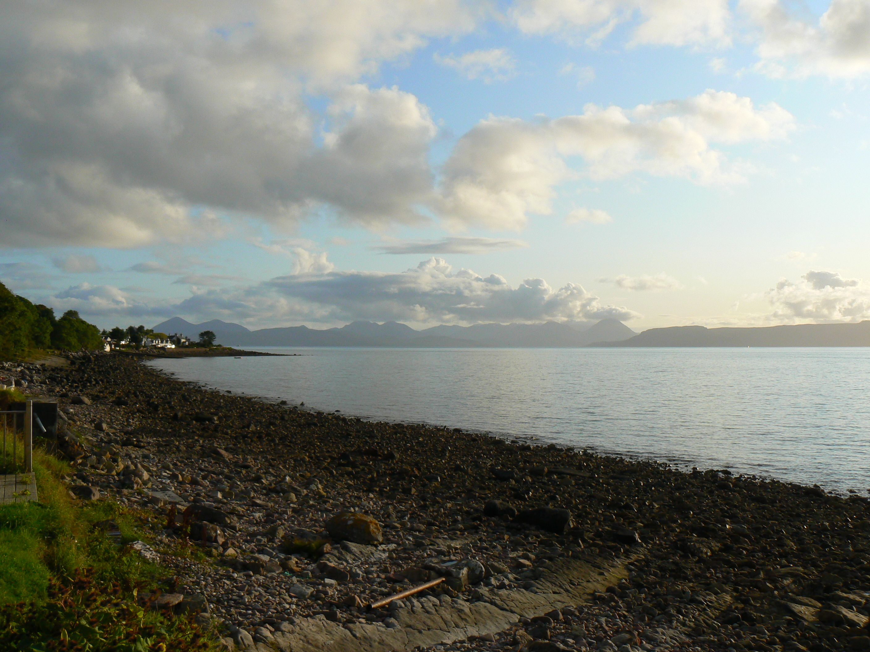 Skye from Applecross